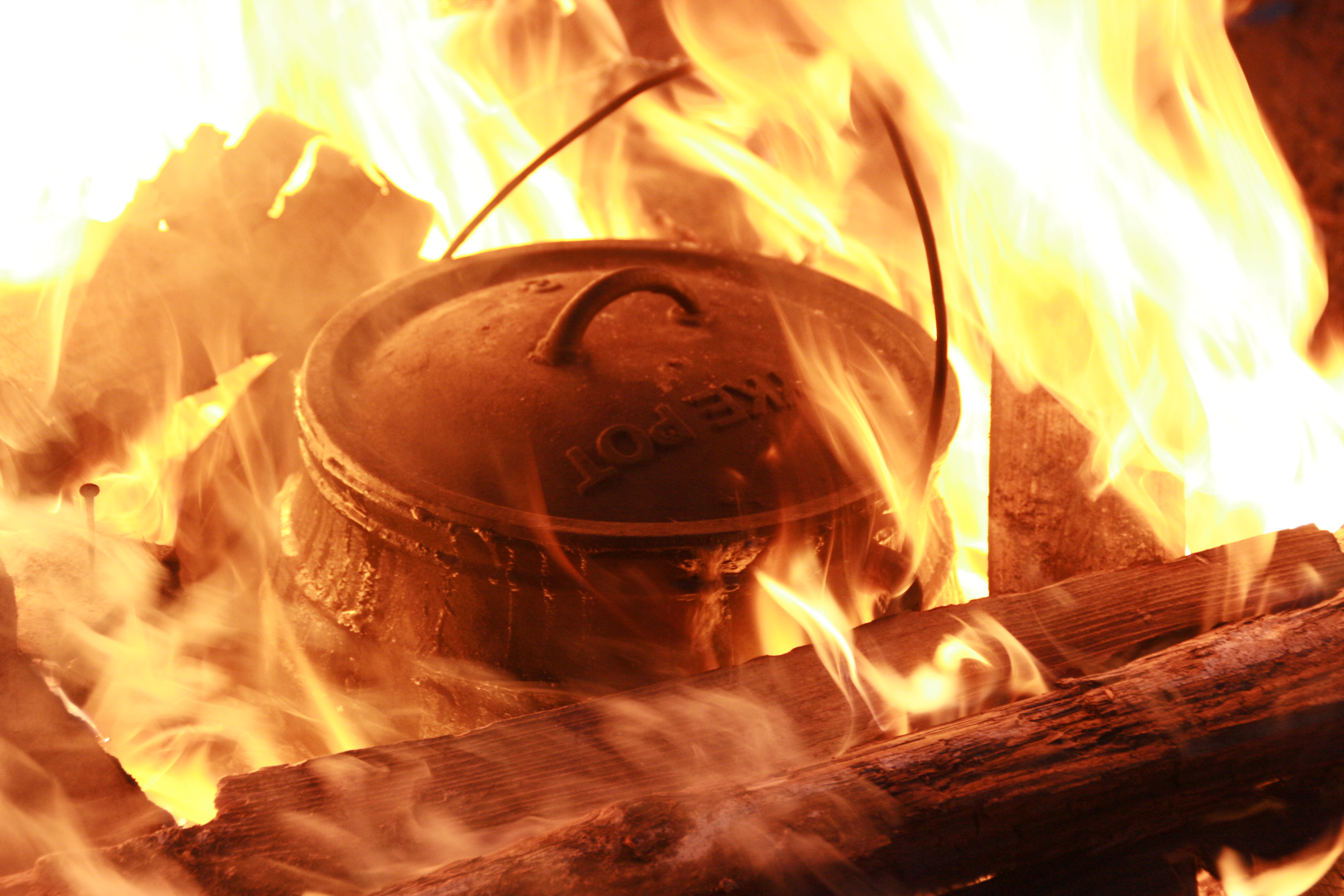 Potjiekos pot.